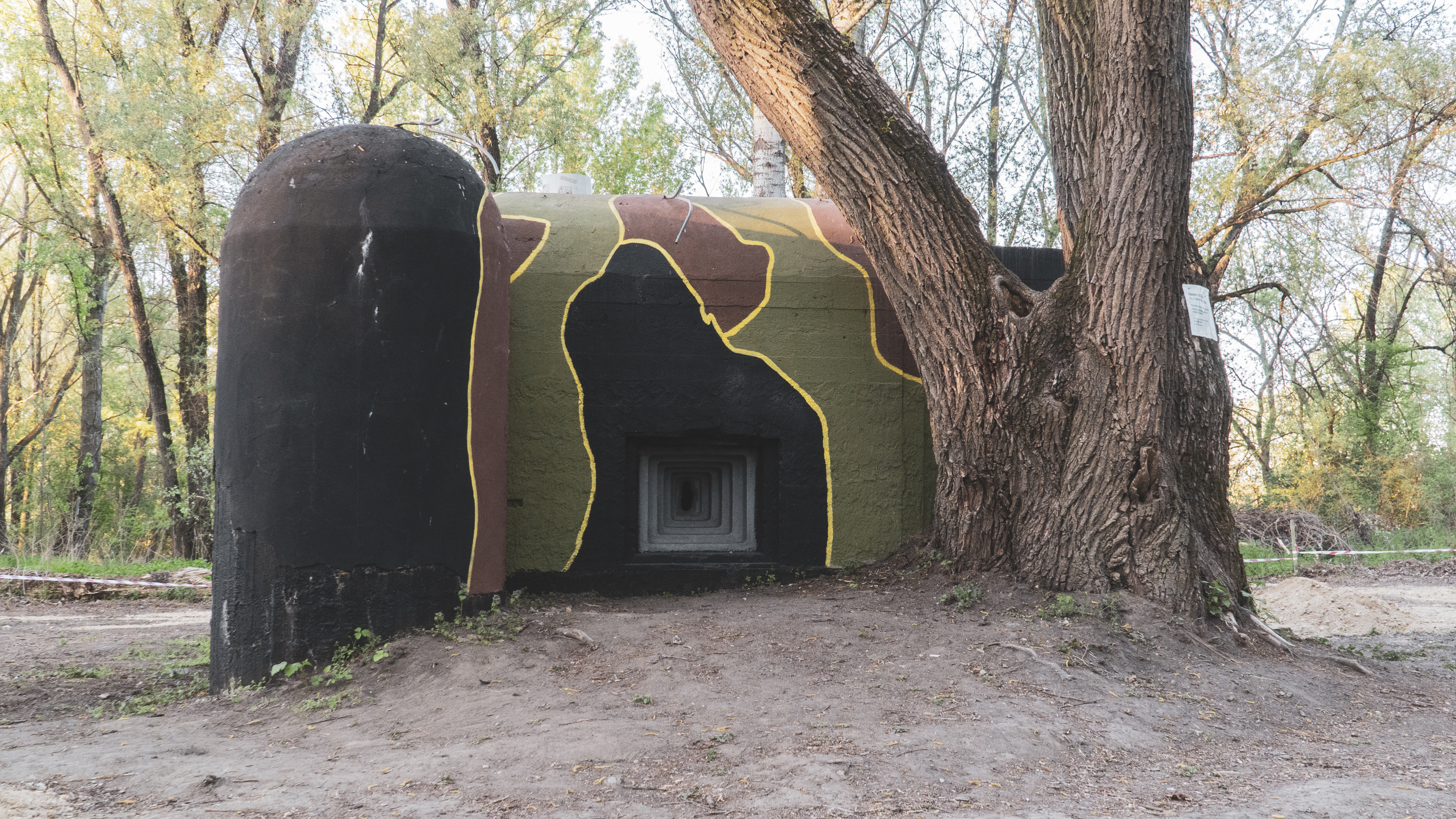 Renovated pillbox LO vz. 37 type D in Gajary